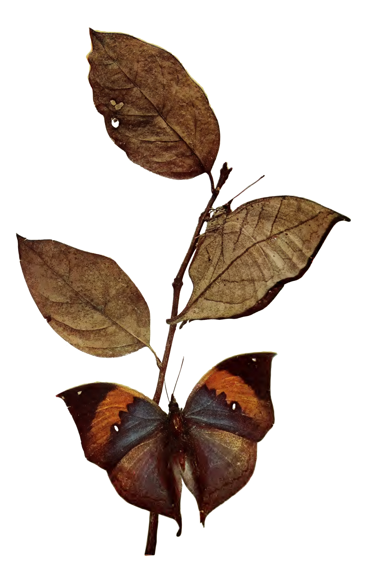 Kallima paralekta (Higley, 1902; Birds and Nature, Vol. 13)